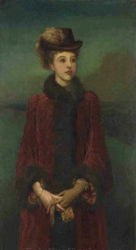 portrait of Laura Troubridge aka Laura Gurney, Lady Troubridge by George Frederic Watts (possibly 1874?)